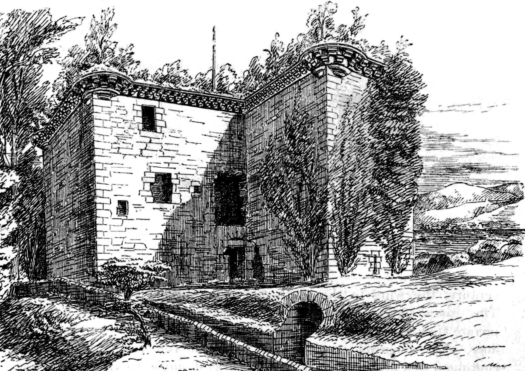 Castle Levan in 1887